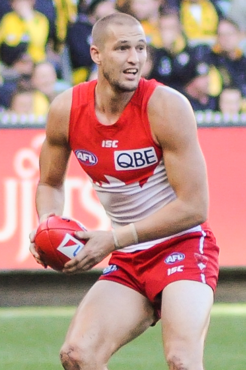 Sam Reid during the AFL round thirteen match between Richmond and Sydney on 17 June 2017 at the Melbourne Cricket Ground in Melbourne, Victoria.